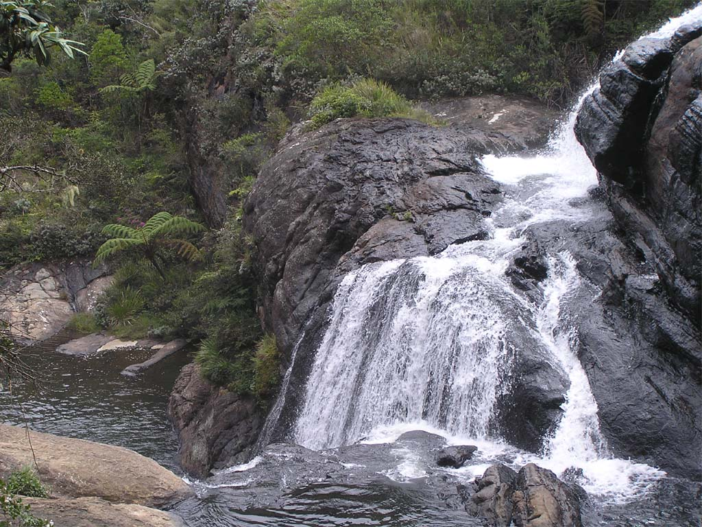 this is bakers falls in hortain plains.